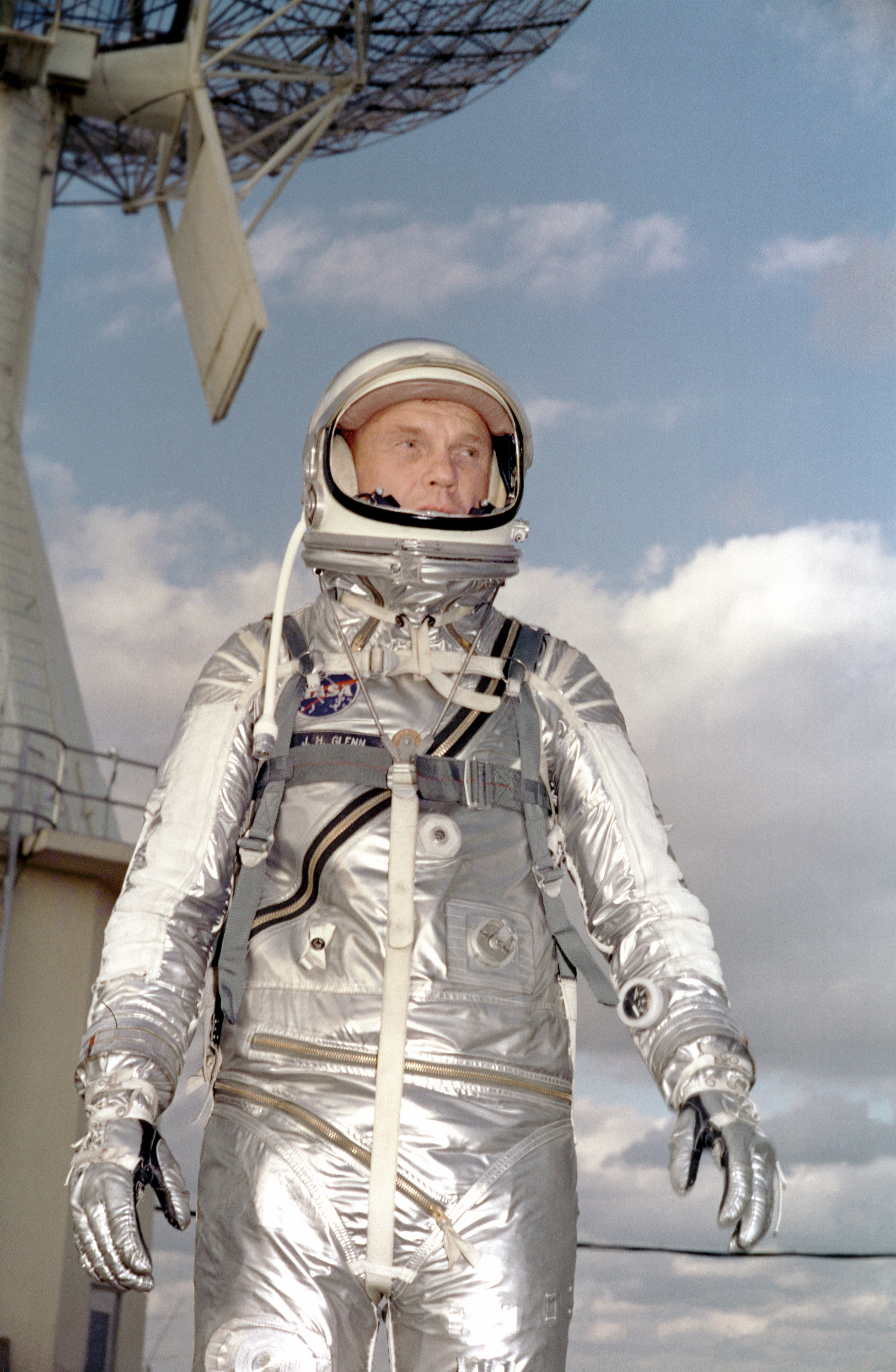 Astronaut John H. Glenn Jr. in his silver Mercury spacesuit during pre-flight training activities at Cape Canaveral. On February 20, 1962 Glenn lifted off into space aboard his Mercury Atlas (MA-6) rocket and became the first American to orbit the Earth. After orbiting the Earth 3 times, Friendship 7 landed in the Atlantic Ocean 4 hours, 55 minutes and 23 seconds later, just East of Grand Turk Island in the Bahamas. Glenn and his capsule were recovered by the Navy Destroyer Noa, 21 minutes after splashdown.